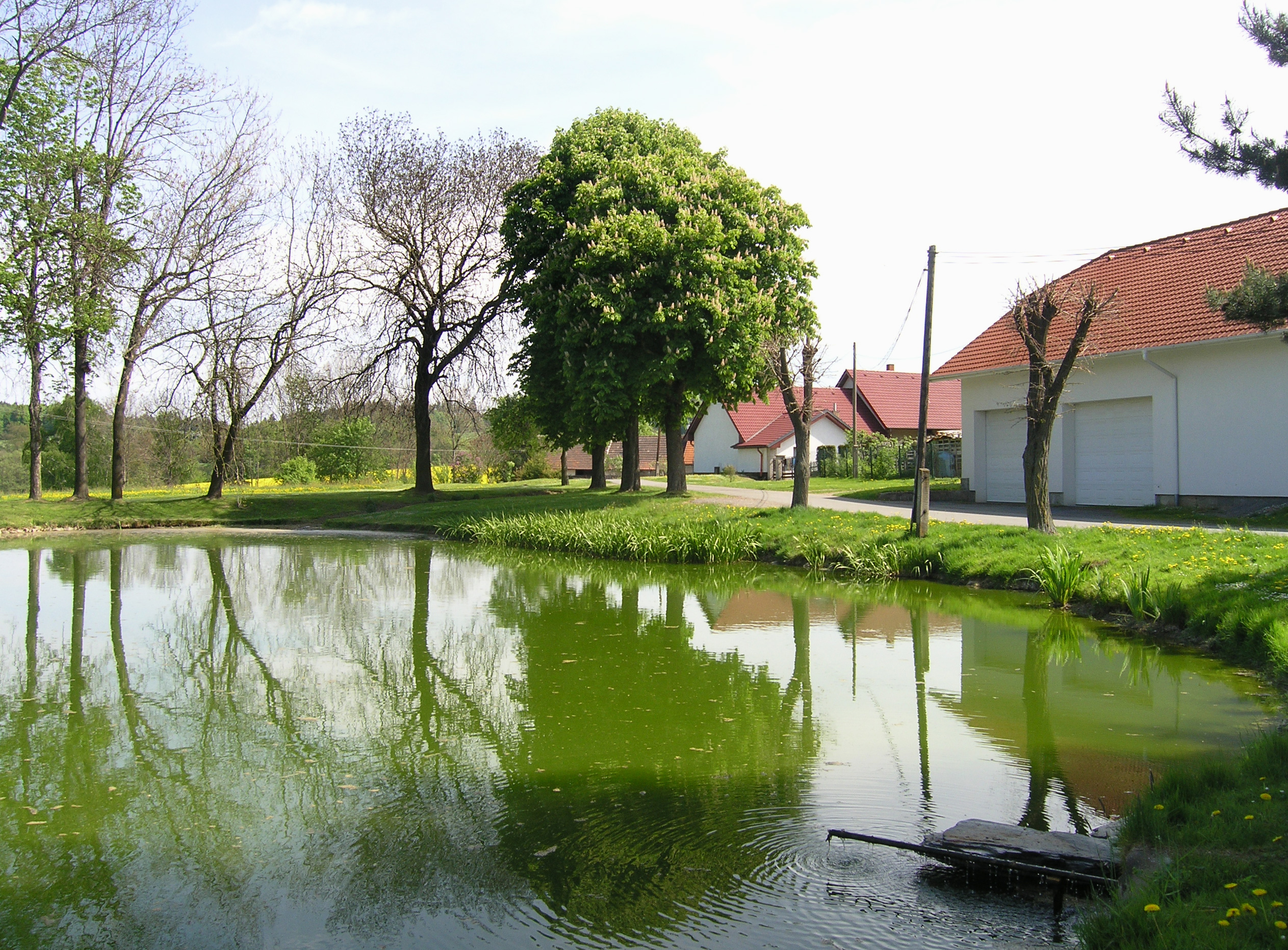 West part of Kouty, part of Smilkov village, Czech Republic